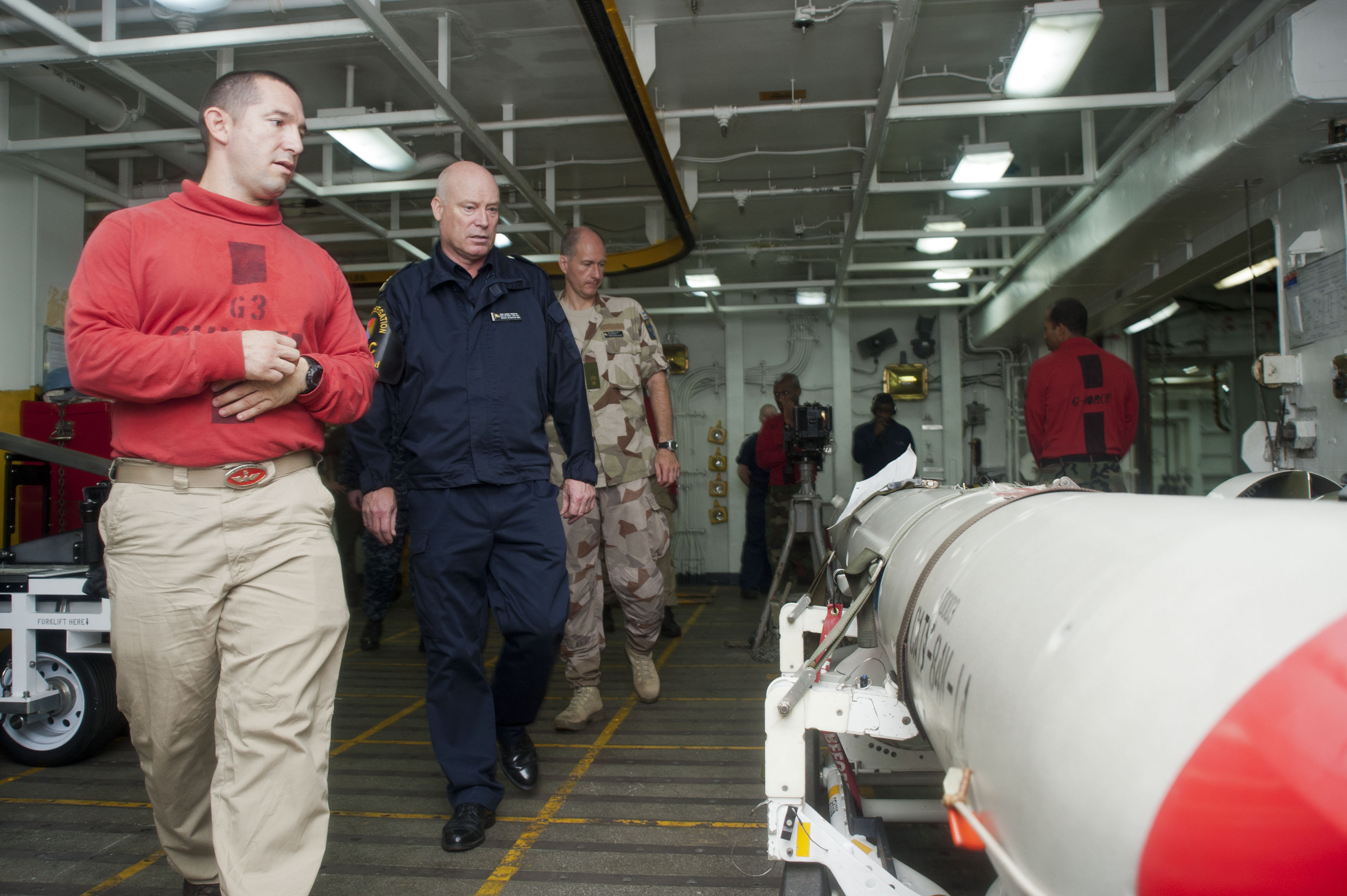 PACIFIC OCEAN (Aug. 29, 2012) Swedish navy Rear Adm. Anders Grenstad, a member of the Neutral Nations Supervisory Commission, center, learns about the stand-off land attack missile from Lt. Zac MacDonald, from Torrance, Calif., during an overnight visit aboard the aircraft carrier USS George Washington (CVN 73). Grenstad visited George Washington to get a first-hand view of daily operations aboard an underway aircraft carrier. (U.S. Navy photo by Mass Communication Specialist 3rd Class William Pittman/Released) VIRIN 120829-N-SF704-163